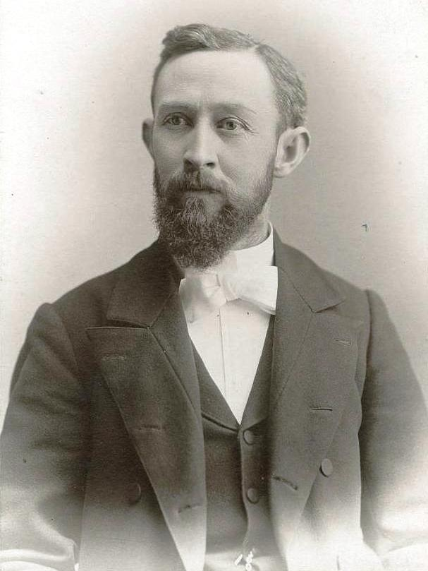 Photo of George Mousley Cannon, the first president of the Utah State Senate.